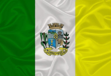 Flags of the city of Brás Pires, Minas Gerais, Brazil.